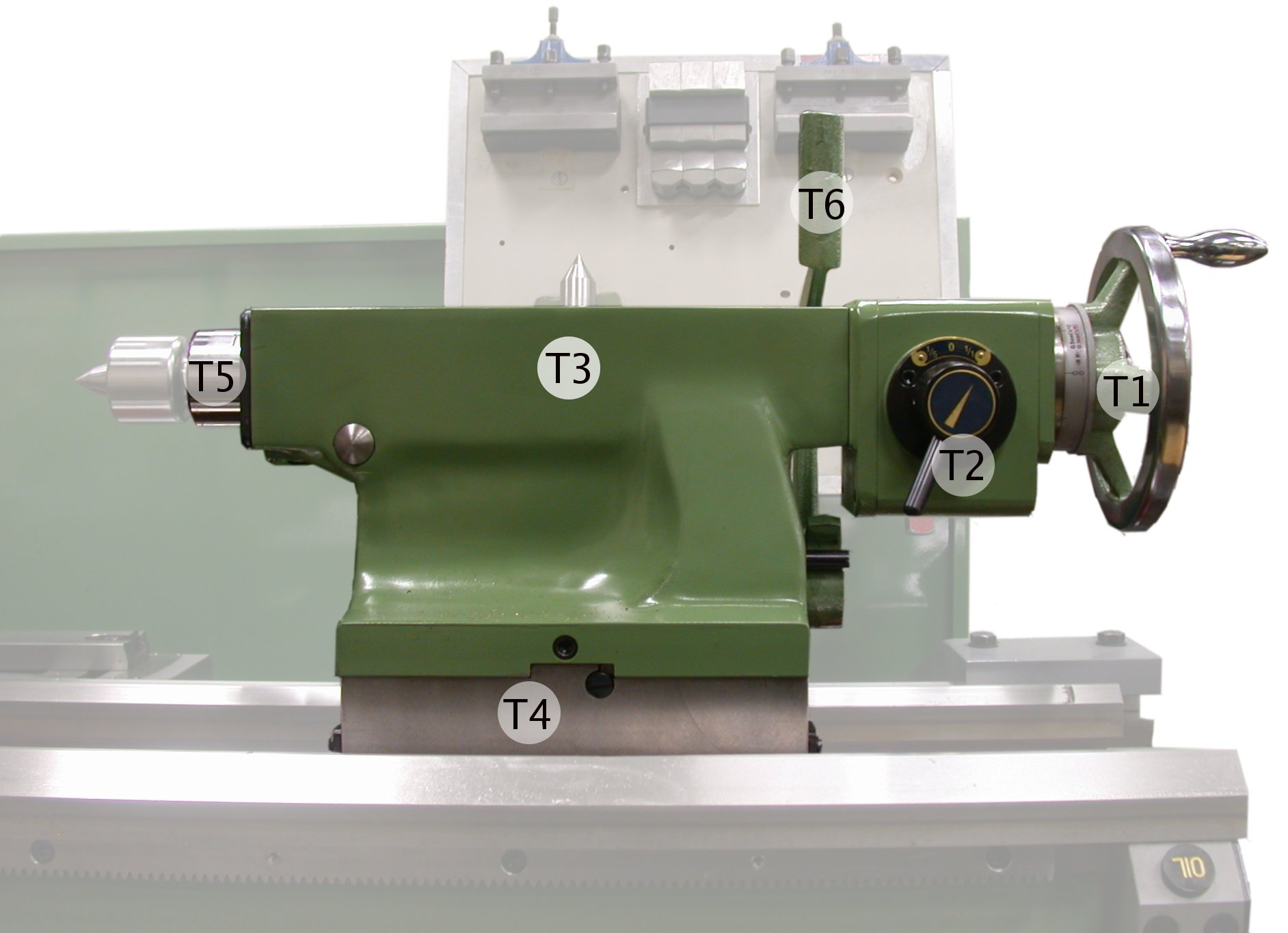 Highlighted tailstock of Hwacheon centre lathe. T1:feed screw T2:reduction gear box (optional) T3:body T4:adjustable base T5:spindle T6:locking lever